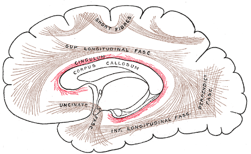 Cingulum. Association fiber around corpus callosum in brain.